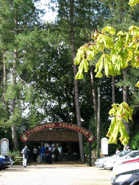 Entrance to the Thursford Collection from carpark The Thursford Collection houses a great variety of mechanical organs, ranging from small street organs to large dance organs, steam showman's and traction engines, steam rollers and static engines, fairground and dancehall organs and a Gondola switchback. It also includes a narrow gauge steam railway and a Wurlitzer theatre organ.